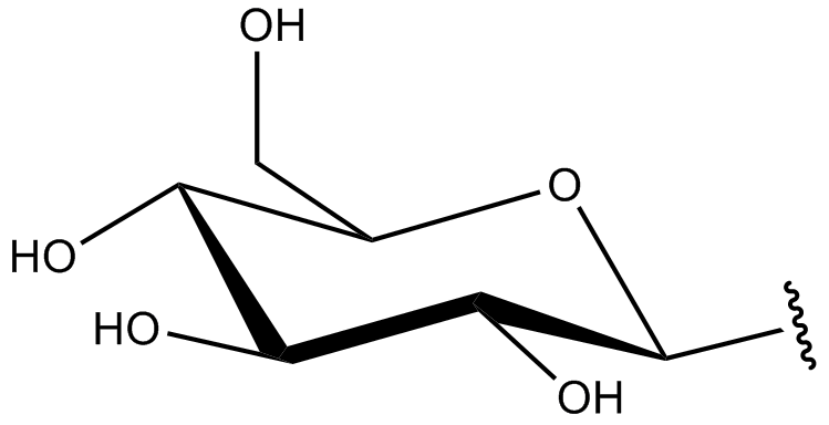 author=Kupirijo